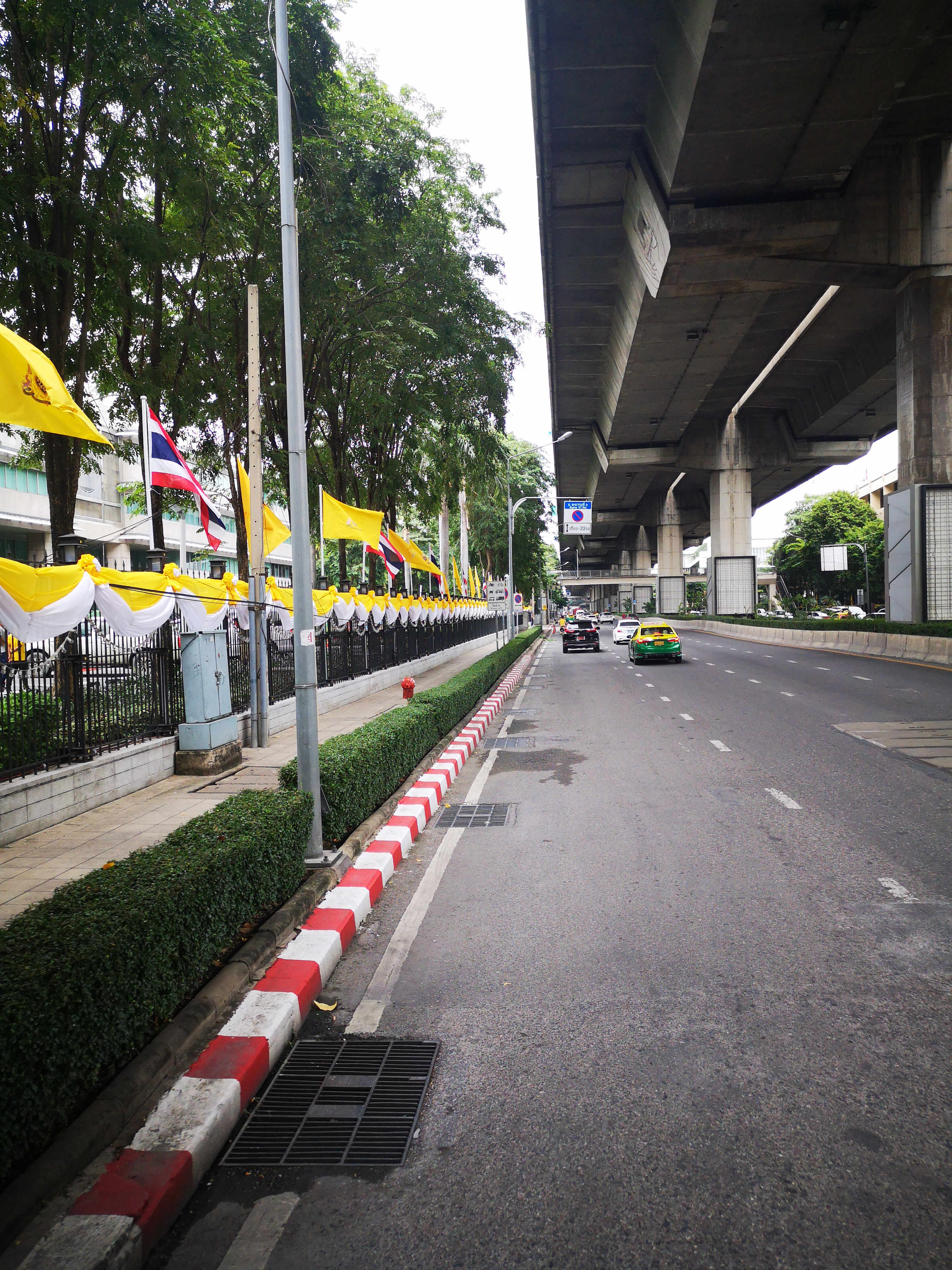 Thanon Rama VI